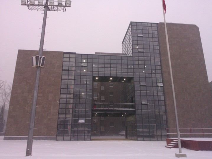 The newly decorated East Teaching Building of The Affiliated High School of Peking University.